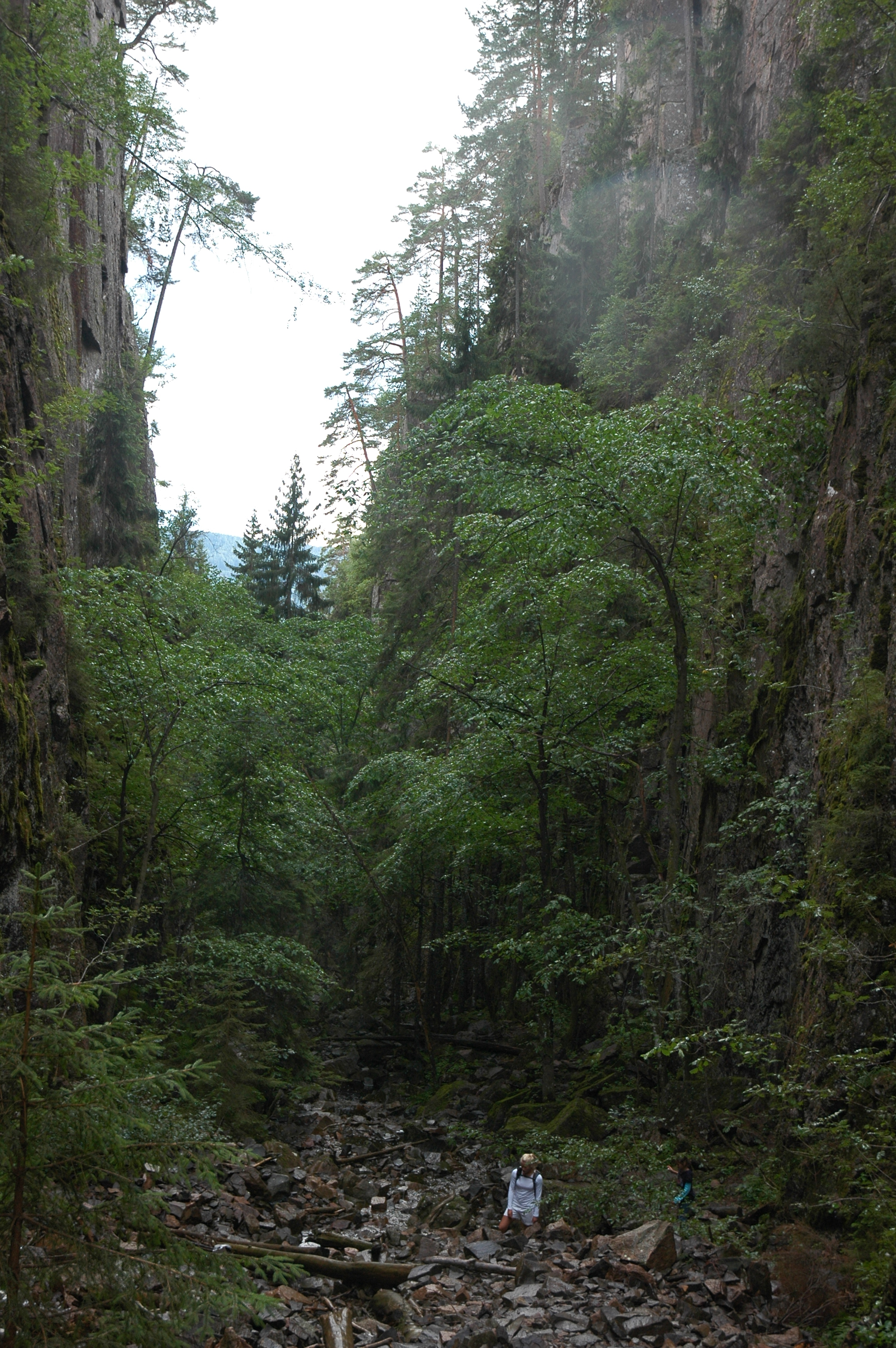 Section from Kjøsterudjuvet in Drammen, a gorge with a scenic hiking route.